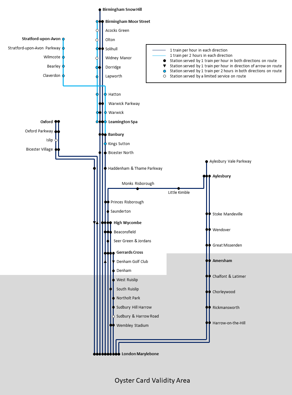 This map was created by me to represent the off-peak service level on the Chiltern Railways network in trains per hour (tph)